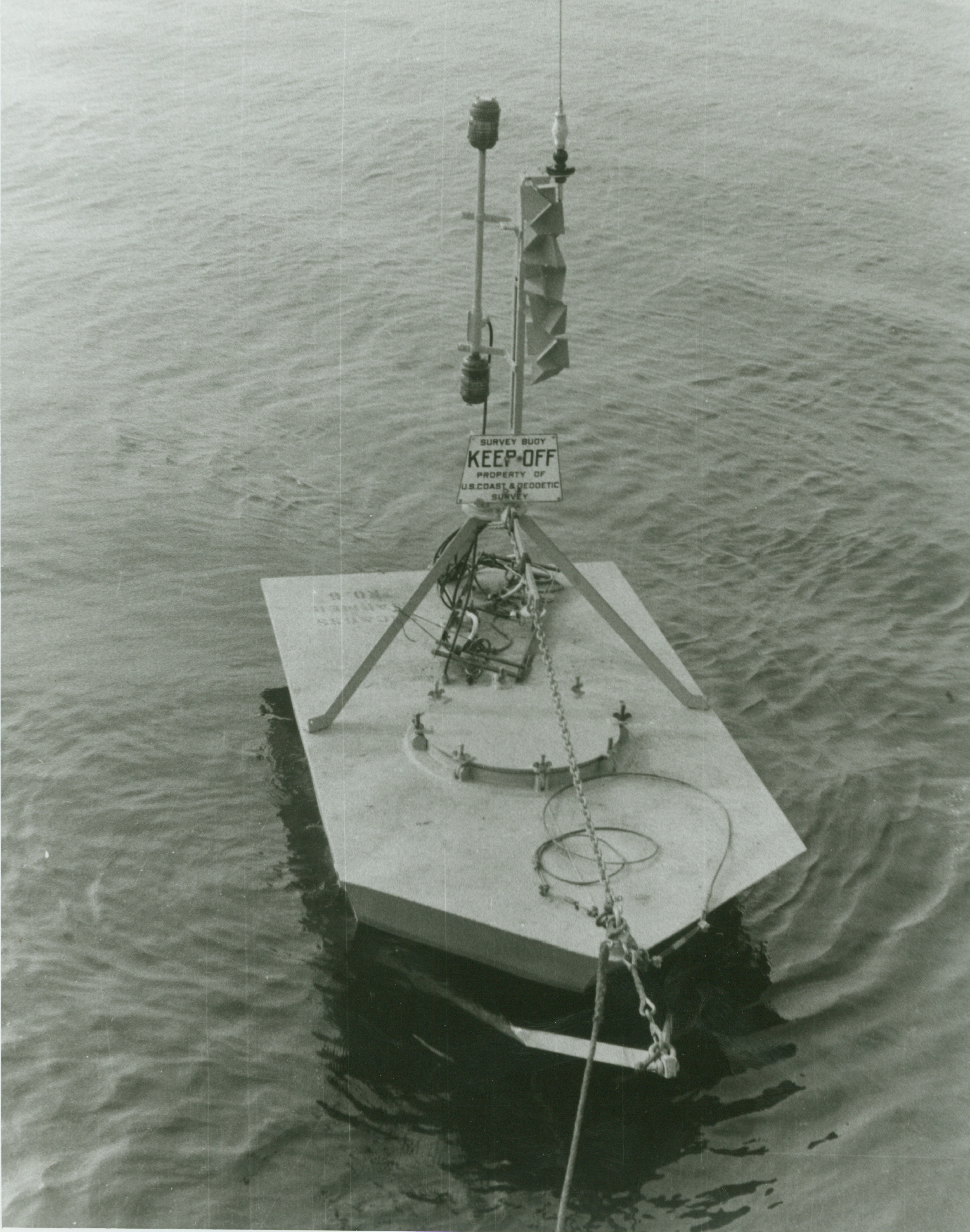 Buoy for deploying Roberts Radio Current Meter, which measures velocity and direction of water current).